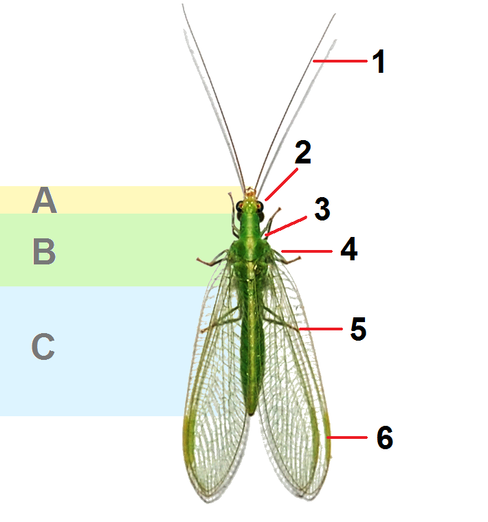 Chrysoperla mediterranea